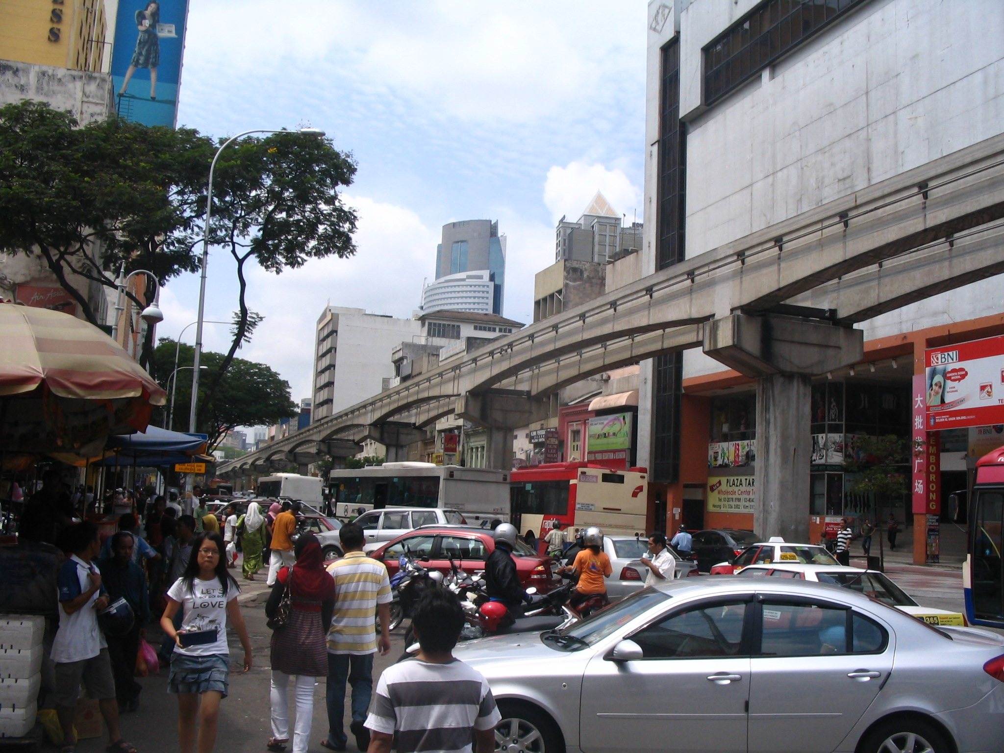 Jalan Abdul Rahman - Chow Kit